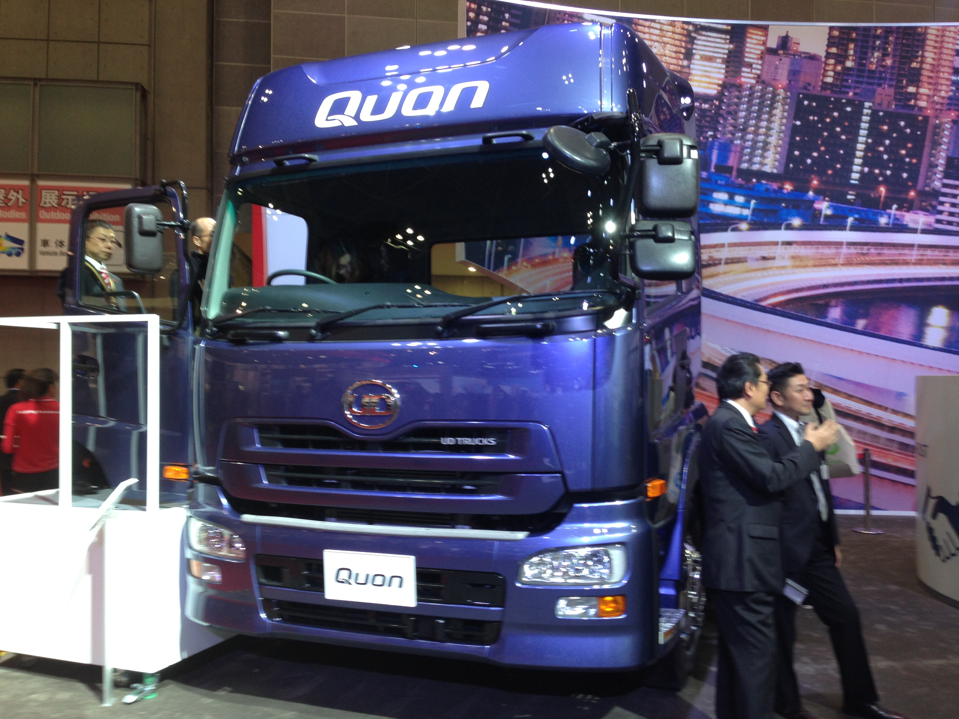 UD Quon GK 4x2 Tractor photographed at the Tokyo Motor Show 2013.